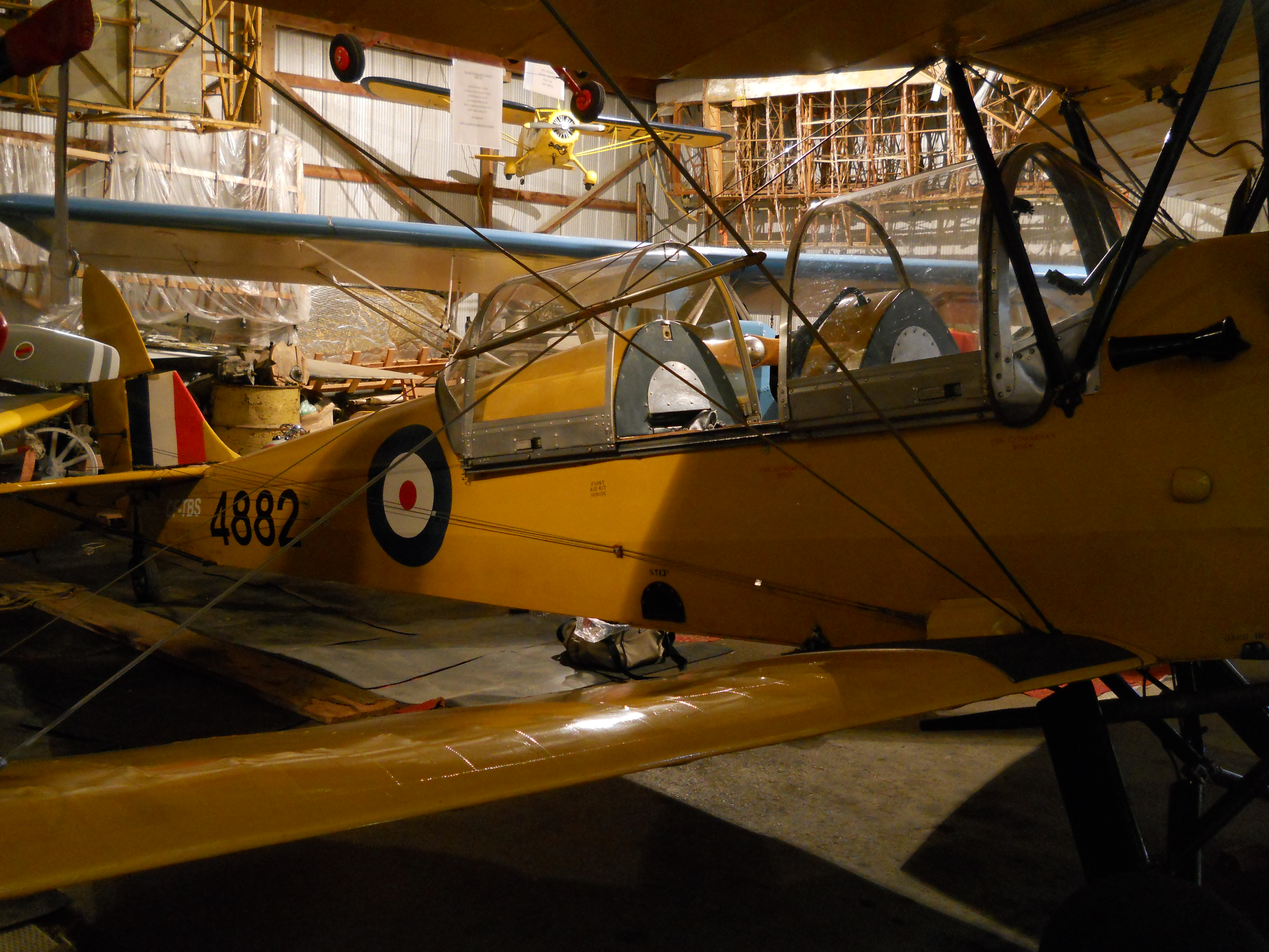 De Havilland Tiger Moth RCAF 4882, CF-TBS in its hangar at Guelph Airpark. Student sits in the rear, instructor in the front. CF-TBS won the Outstanding Open Cockpit Biplane Award at Oshkosh 2008, and is completely airworthy. CF-TBS courtesy of Tom Dietrich, Tiger Boys Aircraft Works. DH82C4 from No. 1 SFTS Camp Borden